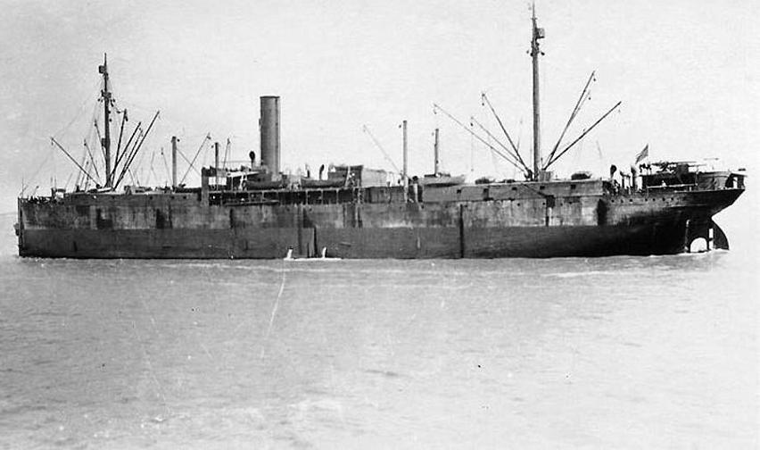 S.S. Montanan (American Freighter, 1913) At St. Nazaire, France in July 1917, while employed as a transport. This ship was torpedoed on 15 August 1918 and sank the following day. Donation of Dr. Mark Kulikowski, 2005. U.S. Naval Historical Center Photograph.